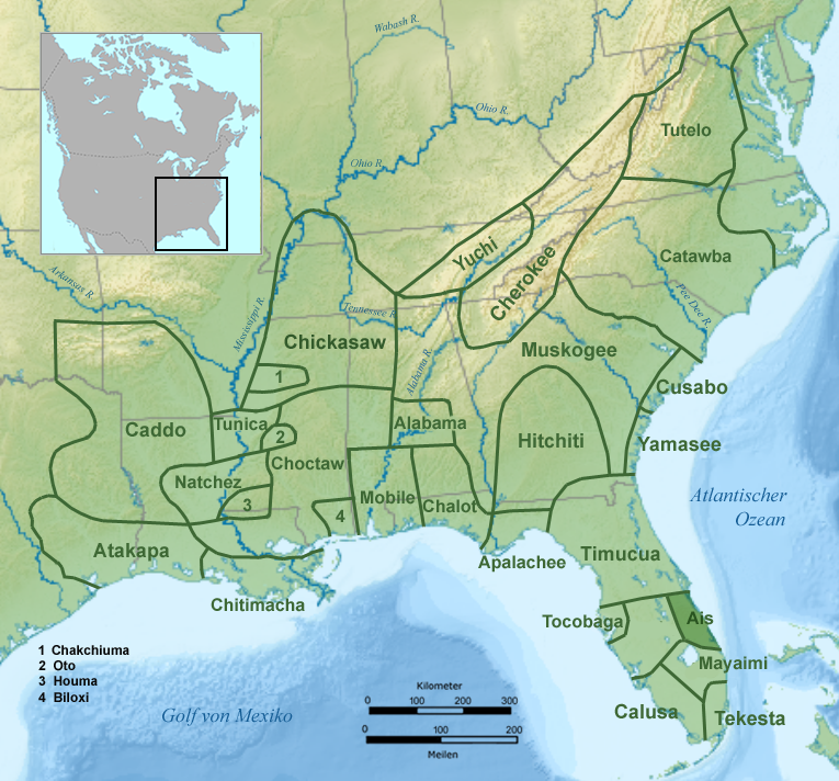 Tribal territory of Ais during sixteenth century